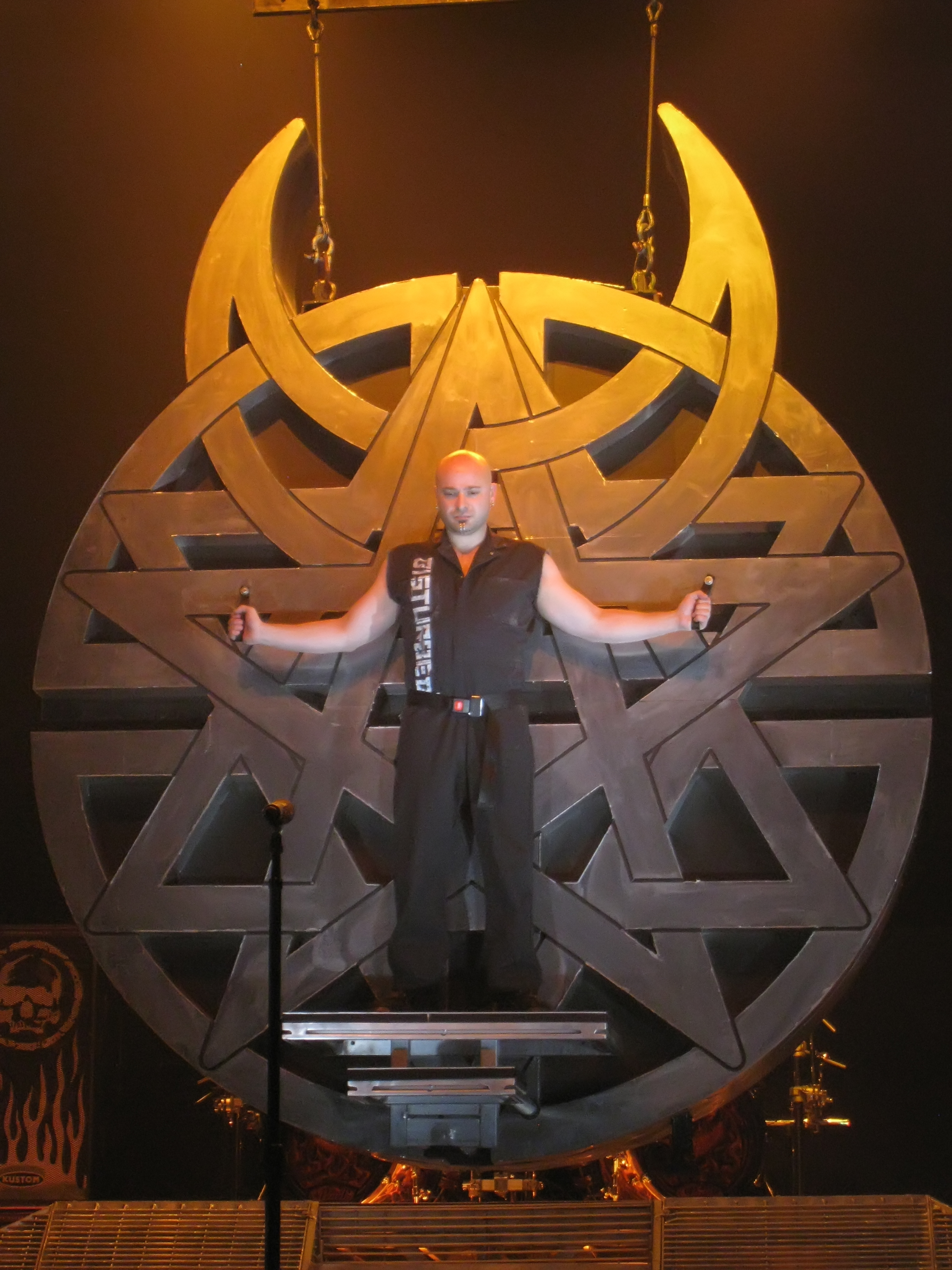 David Draiman entering the stage in a Disturbed concert.